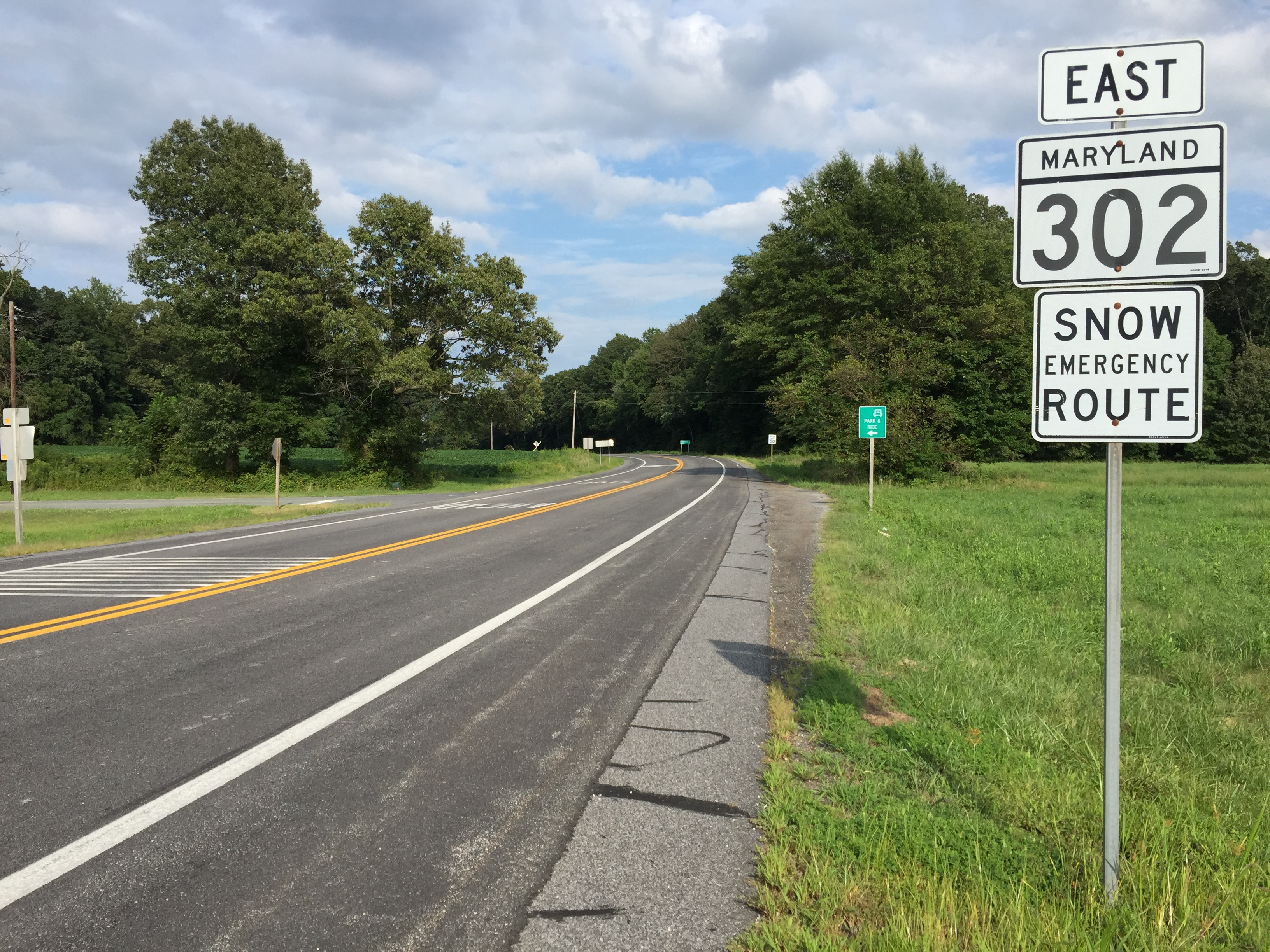 View east along Maryland State Route 302 (Barclay Road) at U.S. Route 301 (Blue Star Memorial Highway) in Weidman, Queen Anne's County, Maryland